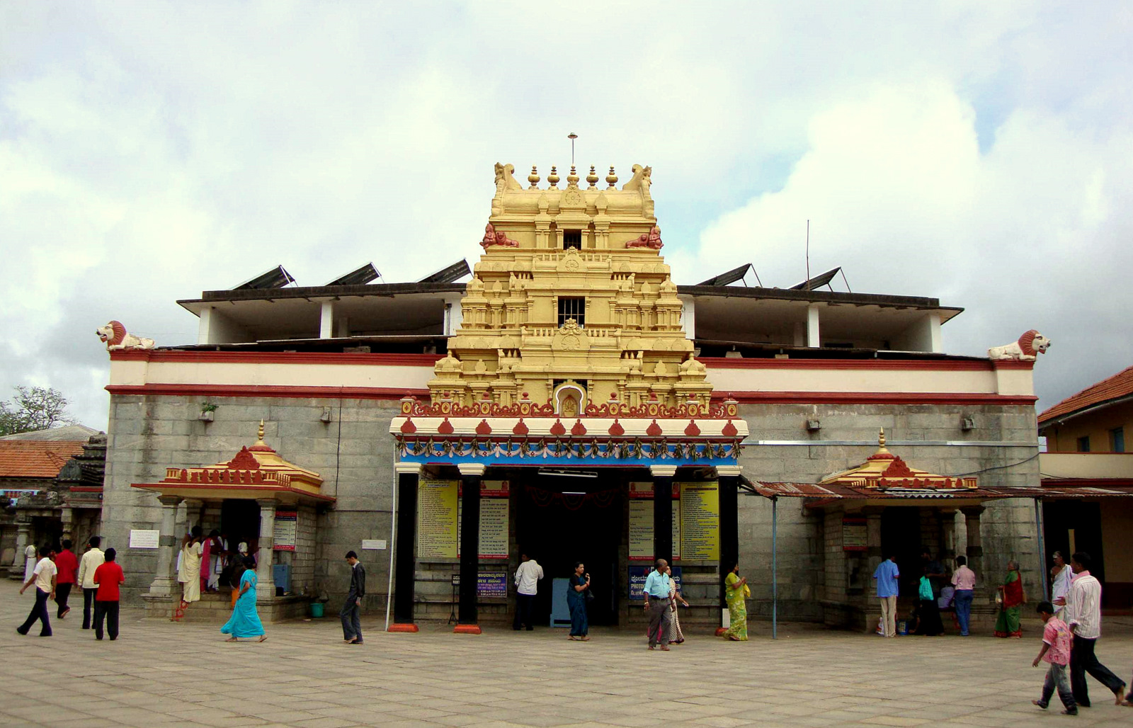 The Sharadamba temple at Sringeri, Karnataka, adjacent to the Vidyasankara temple. It houses the gold idol of Sri Shardamba (Saraswati).